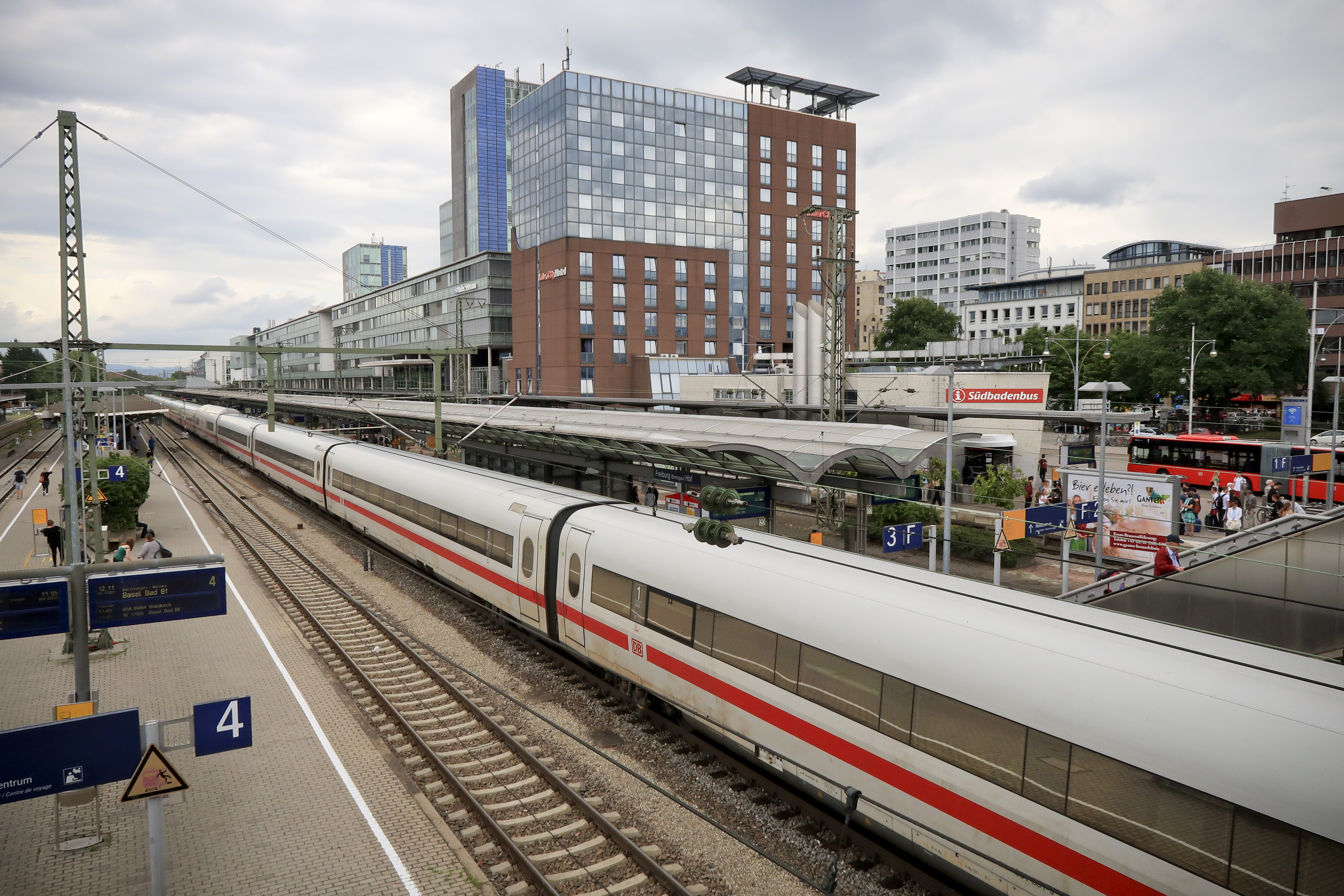 Freiburg im Breisgau Central Station with an Intercity Train heading to Basel, Switzerland